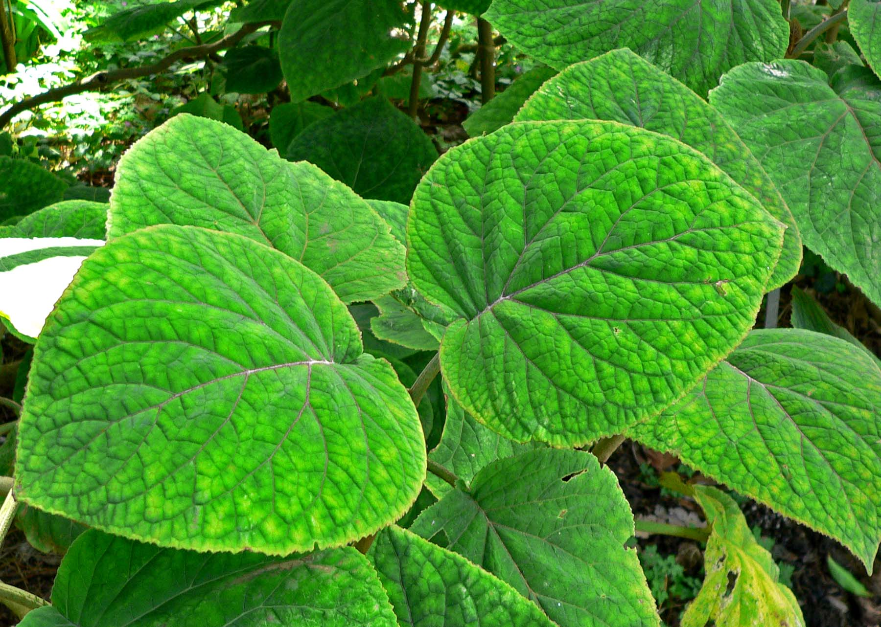 Photo of Bartlettina sordida at the San Francisco Botanical Garden